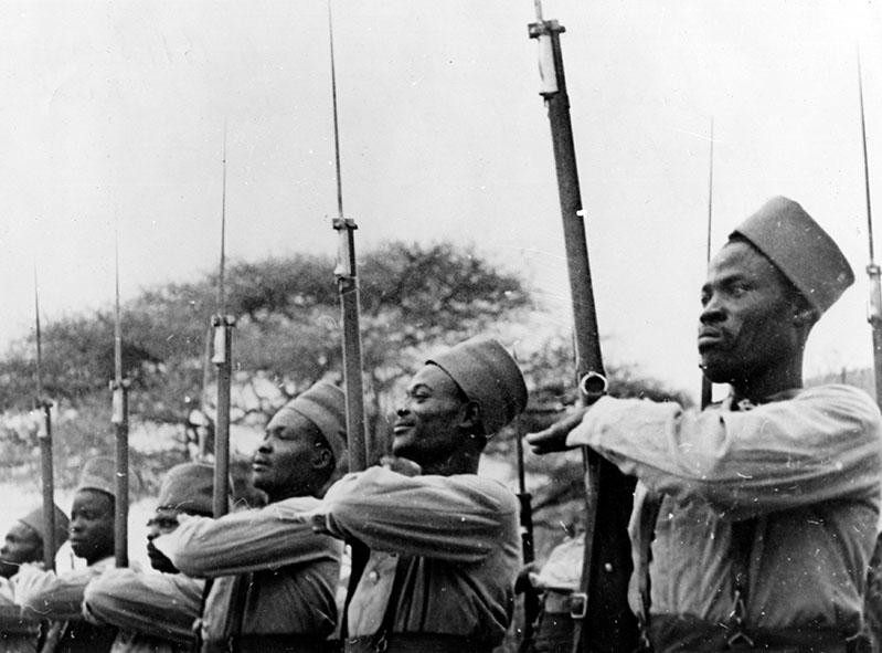 During the East African Campaign, Free French forces after fighting at Kub Kub